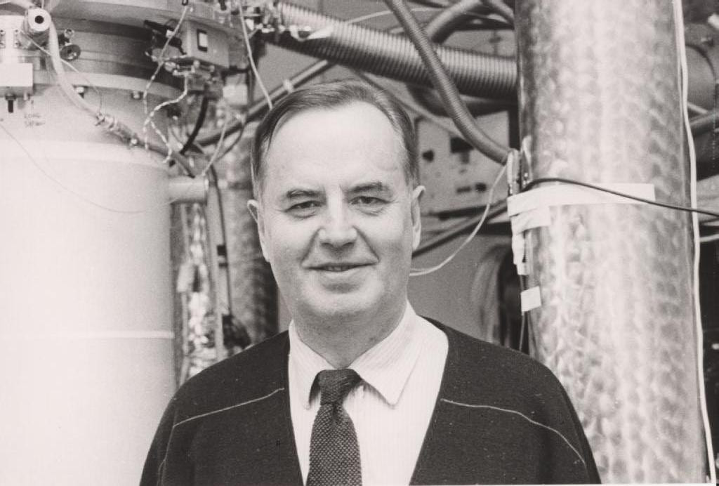 Photograph of the Finnish physician Olli Lounasmaa (1930–2002).